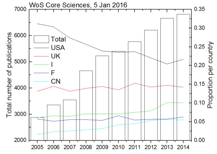 WoS_publications_2015